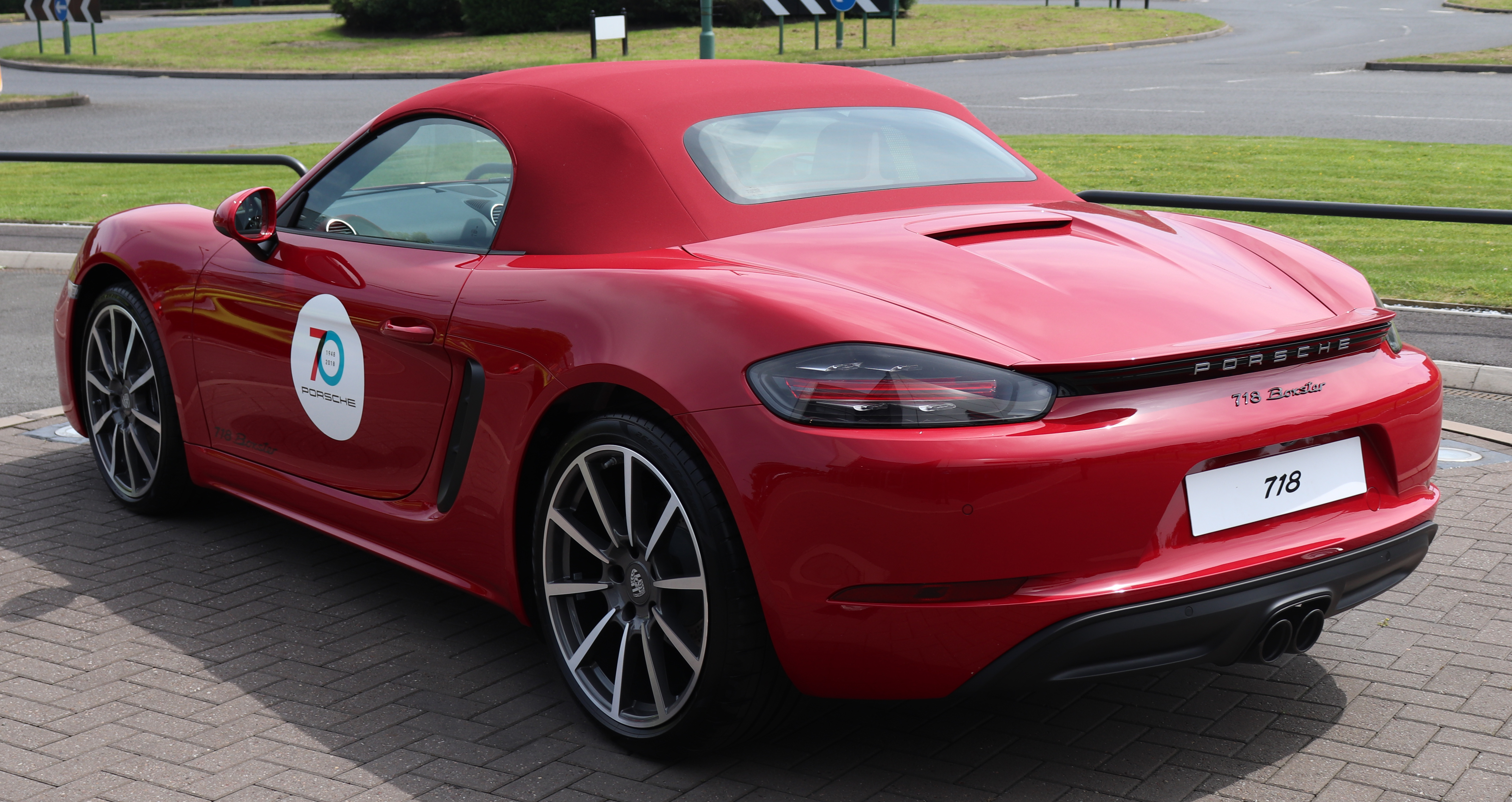 2018 Porsche Cayman 718 Boxster 2.0 Rear Taken in Solihull